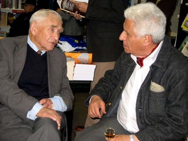 Ryszard Matuszewski (b. August 18, 1914 in Warsaw, Poland, d. April 29, 2010 in Warsaw, Poland) - Polish literary critic, writer, essayist and publicist and Andrzej Wat (b. 1931), Polish historian of Art, son of Polish writer Aleksander Wat (1900-1967)